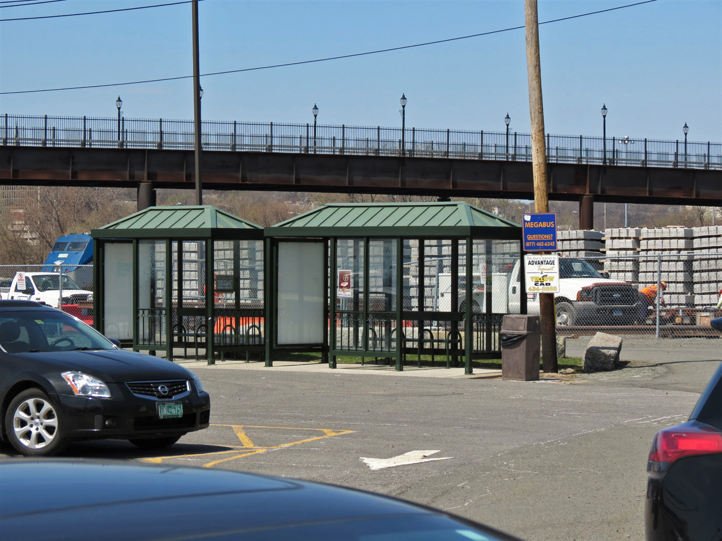 The MegaBus stop at the far end of the surface parking lots north of the Albany-Rensselaer Rail Station.